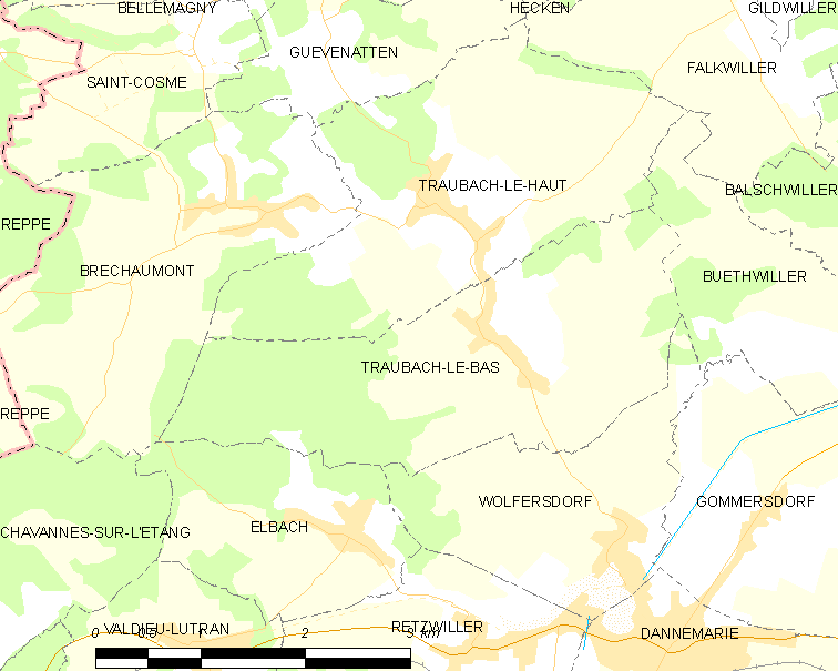 Map of French municipality